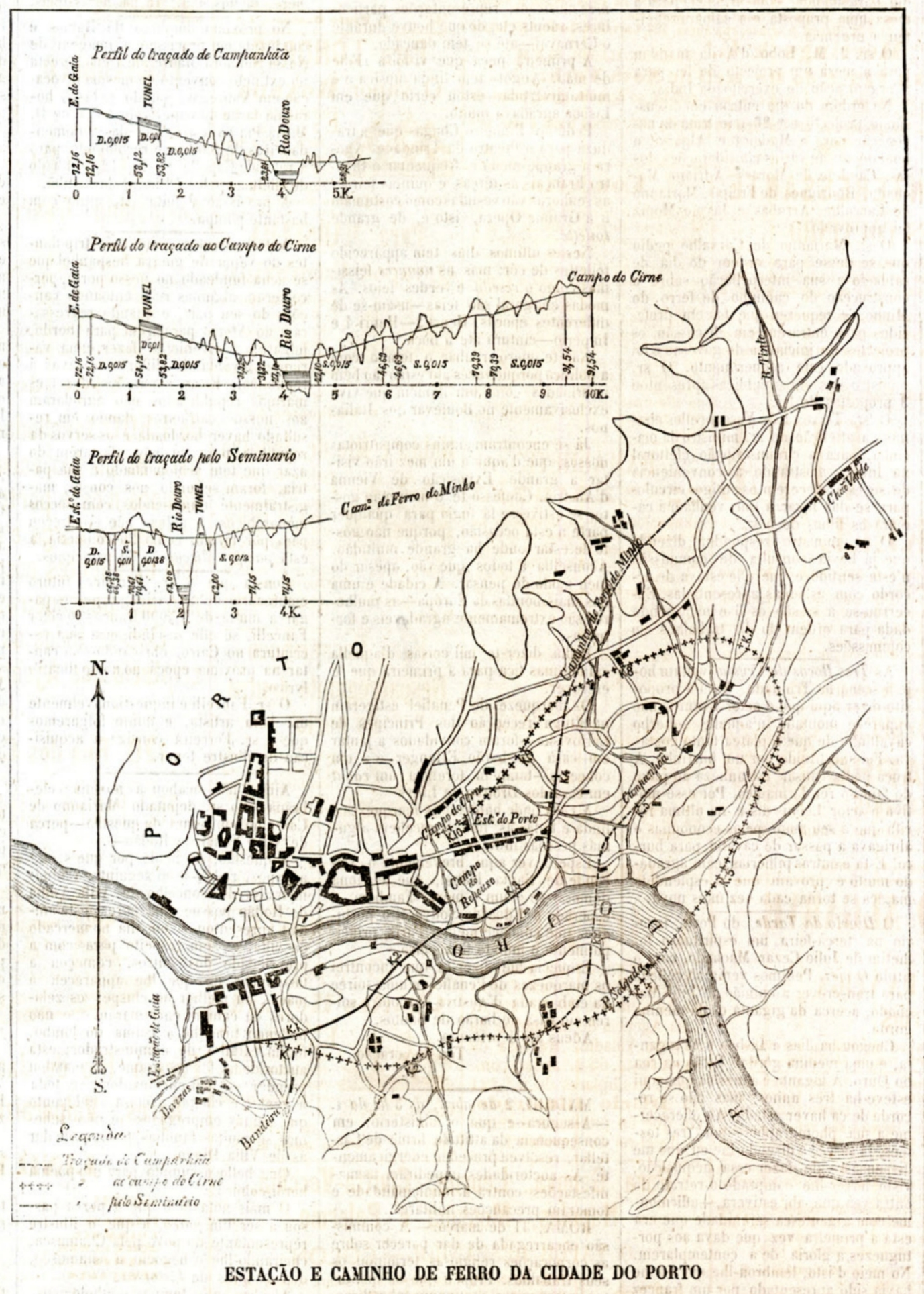 Map of the three projects for the section of the Linha do Norte (Northern Railway) between Vila Nova de Gaia and the city of Porto, in Portugal, including the crossing of the Douro River. The chosen project was the one of the Seminário. This image was published on the Diario Illustrado newspaper No. 263, of 3rd April 1873, and scanned by the Biblioteca Nacional de Portugal.